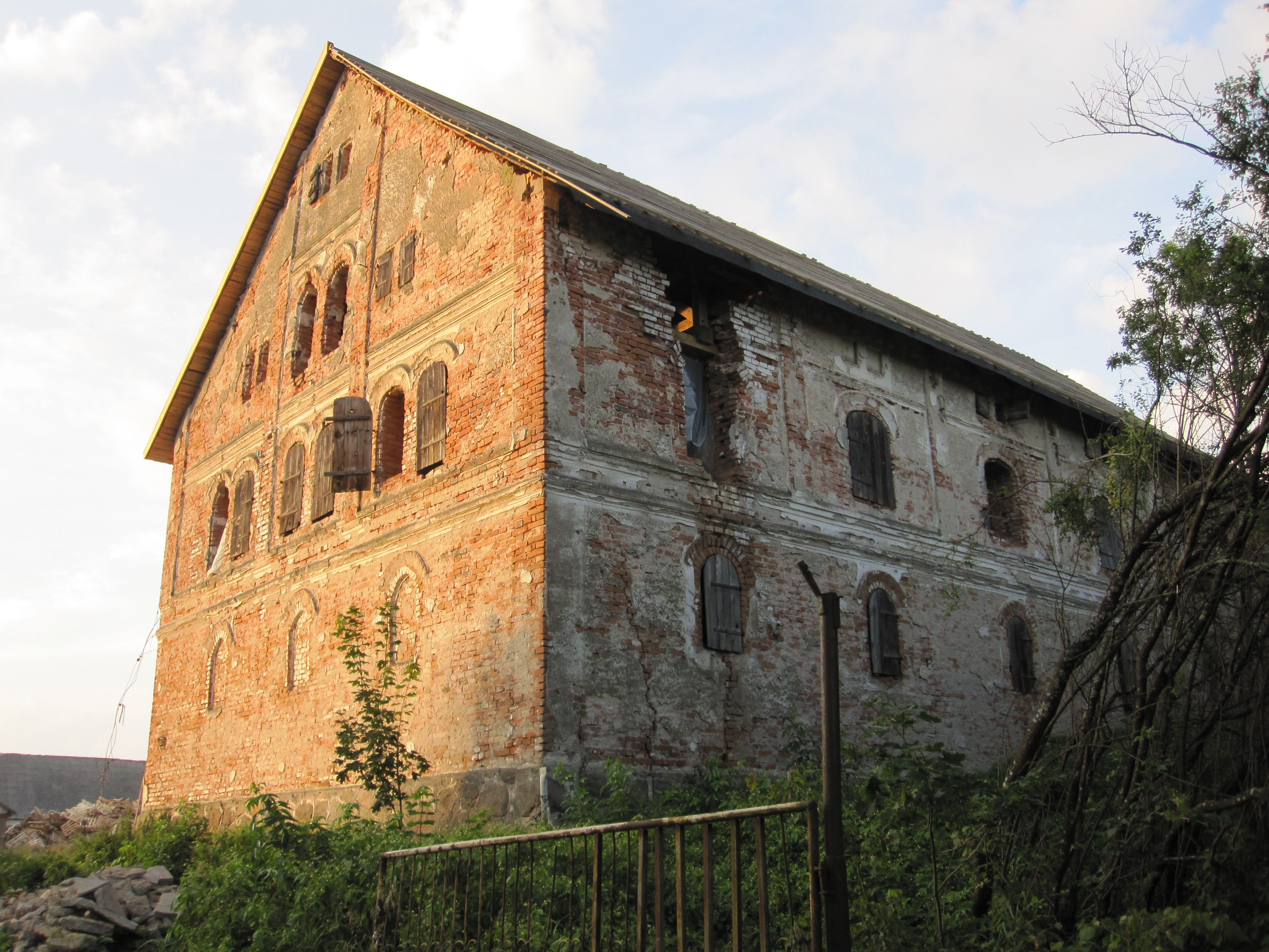 Małszewko - granary